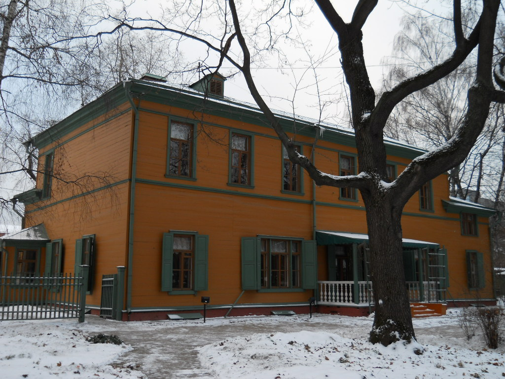 Leo Tolstoy's Museum in Moscow, main building in winter.